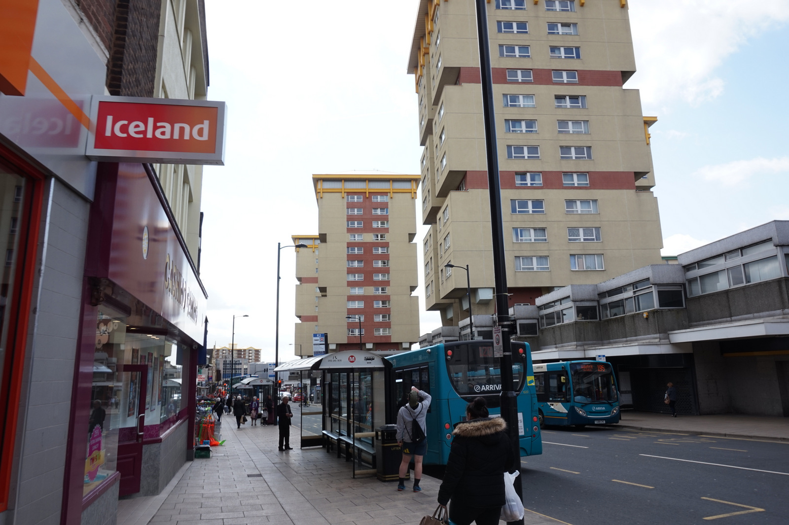 Kirkgate, Wakefield